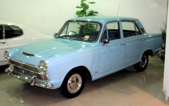 Ford Cortina Mark I